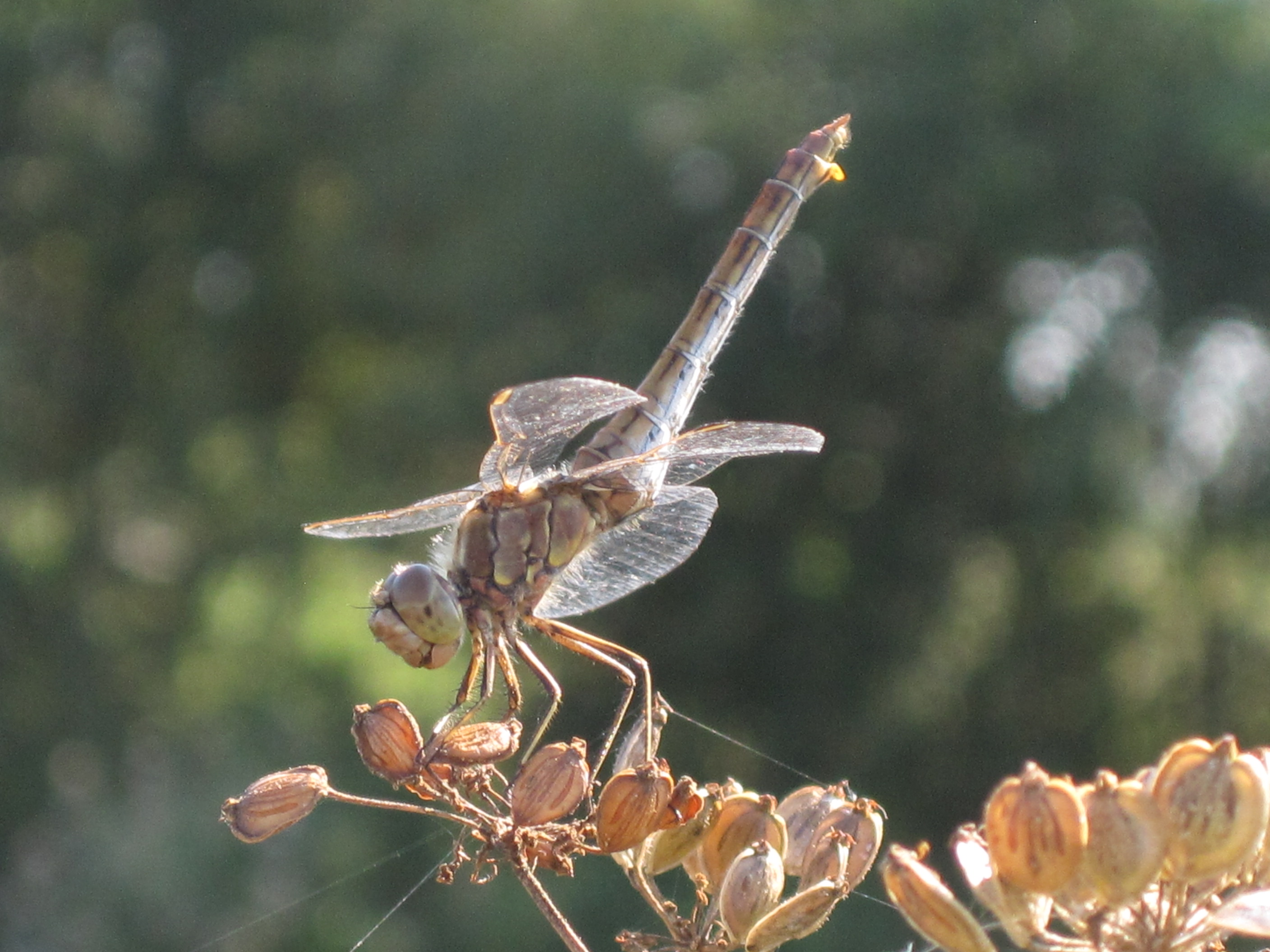 Sympetrum vulgatum (Vagrant Darter) (female) on Heracleum mantegazzianum (Giant hogweed), Arnhem, the Netherlands